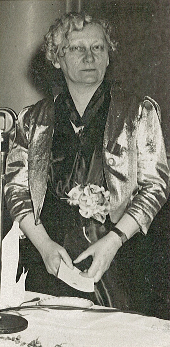 Norwegian publisher Nanna With in the 1930s